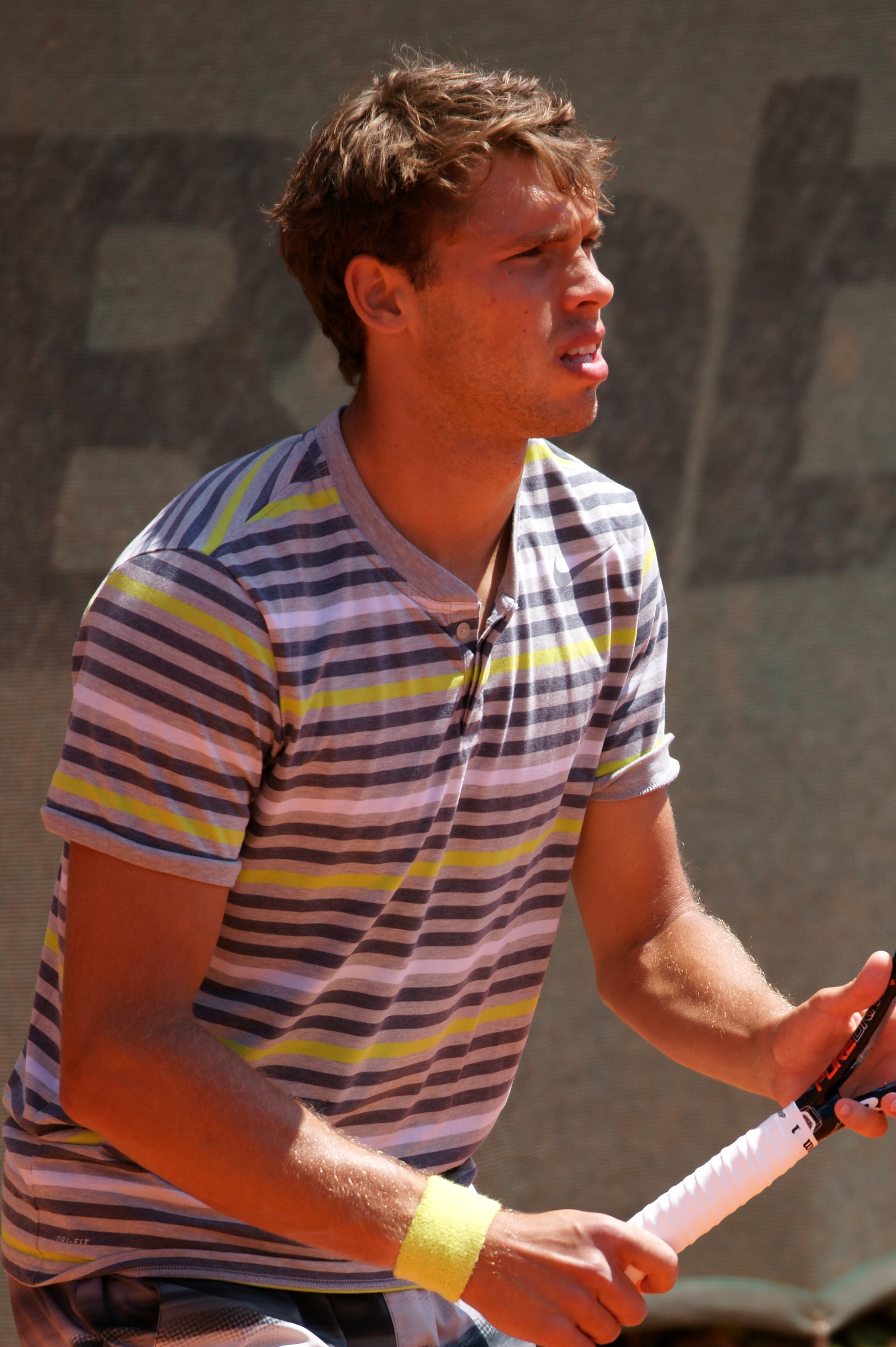 Philipp Davydenko, Nice Open ATP 2015